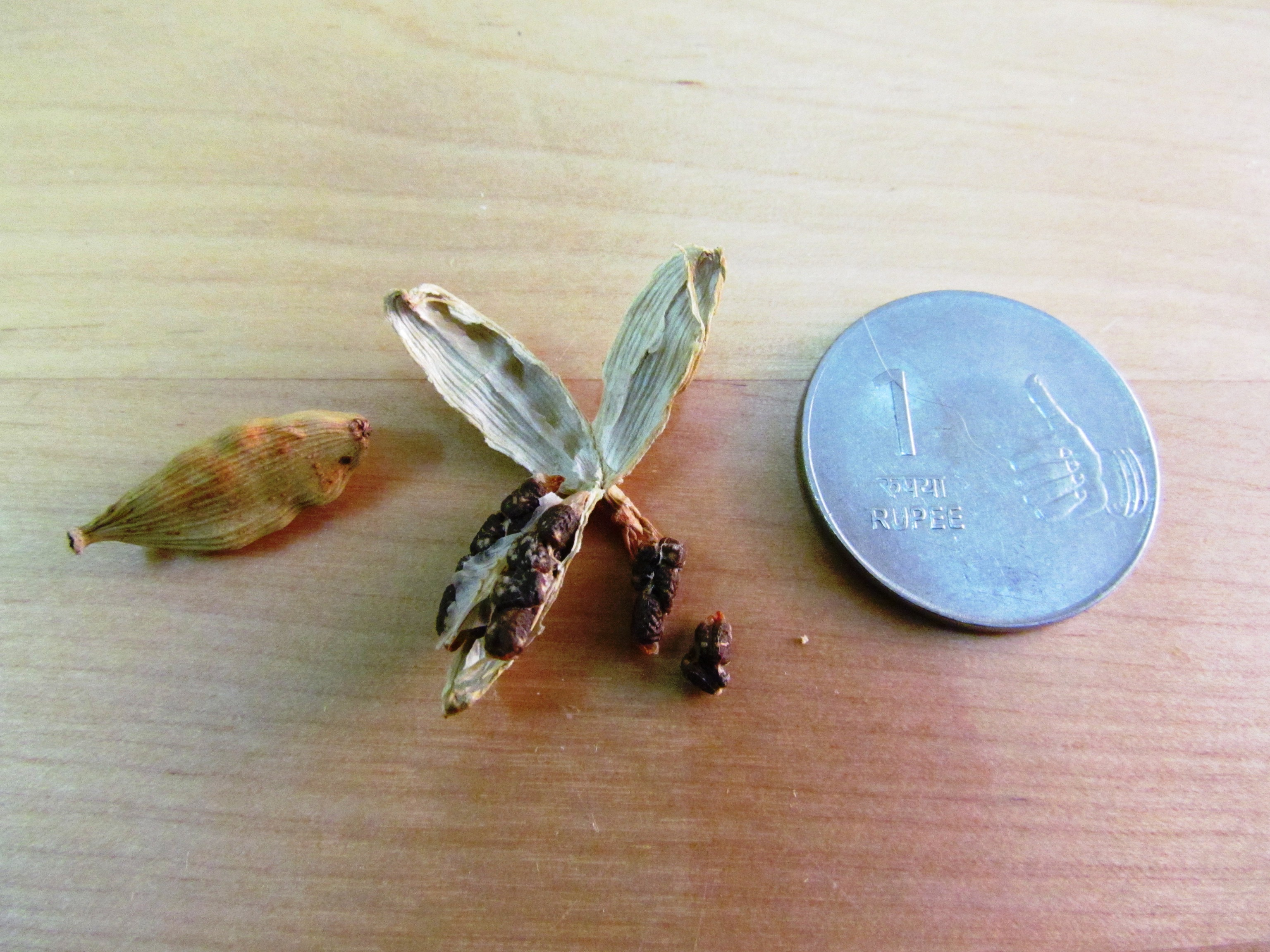 A dried cardamom & a peeled one